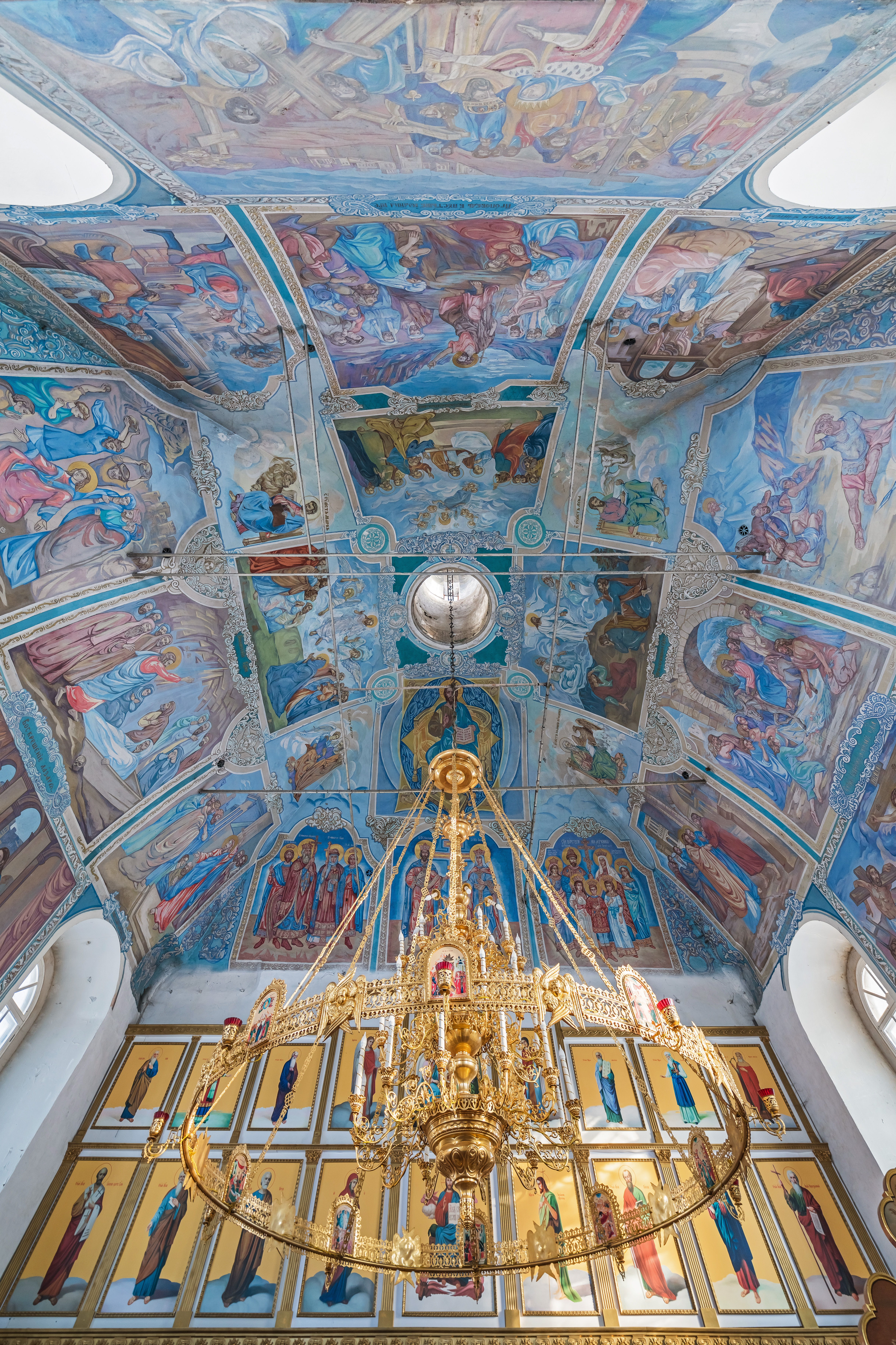 St. Constantine Church in Suzdal, Russia